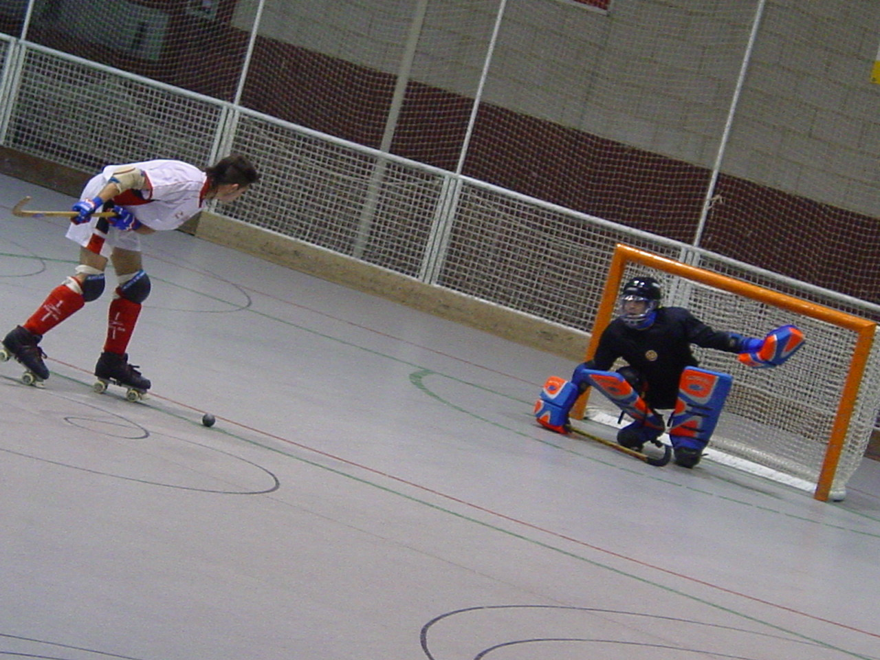 Centre d'Esports Arenys de Munt Hockey team in 2003